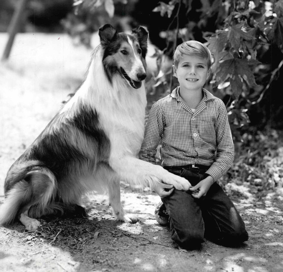 Photo of Jon Provost and Lassie from the television program Lassie. This is from the "Grand Canyon" episode.